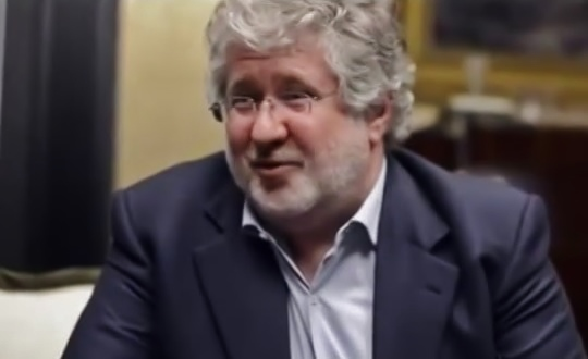 Ihor Kolomoyskyi